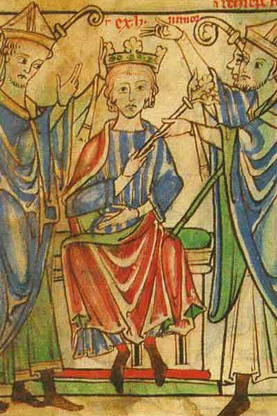 Cropped version of the Young Kings Coronation